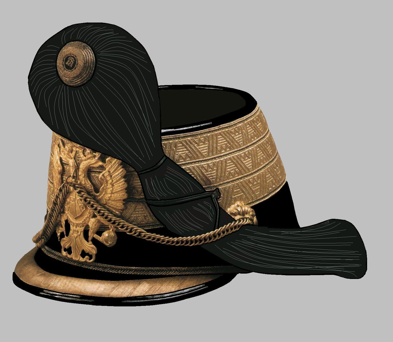 Shako of the th k.u.k. Artillery corps.